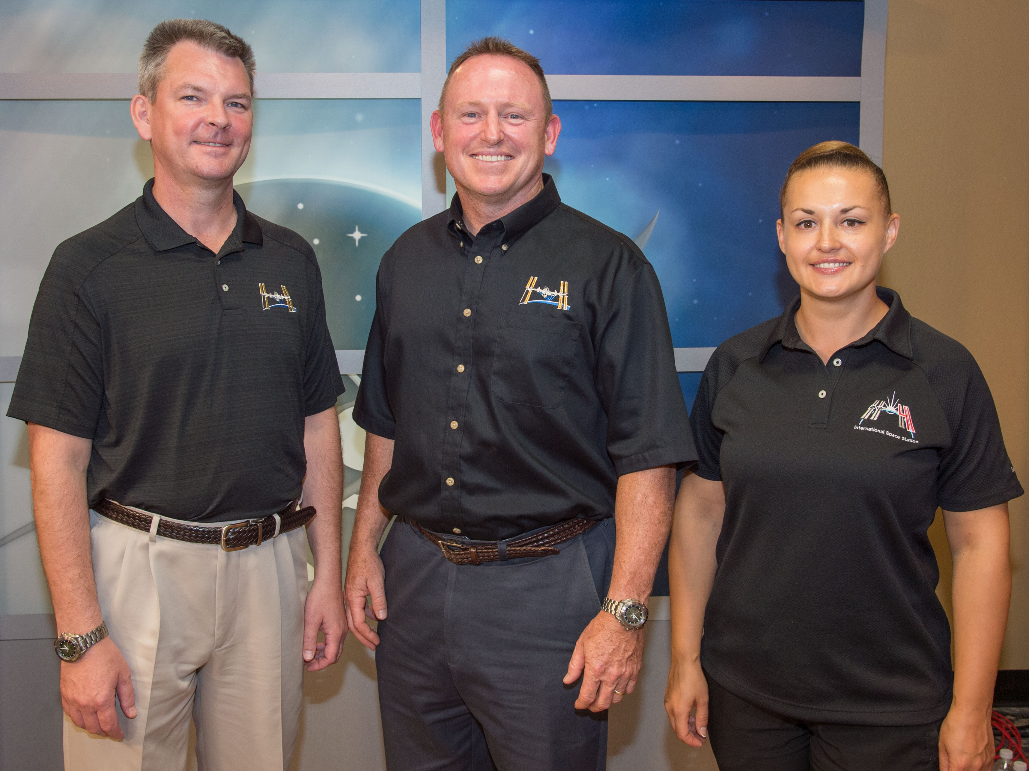 NASA astronaut Barry Wilmore (center), Expedition 41 flight engineer and Expedition 42 commander; along with Russian cosmonauts Alexander Samokutyaev and Elena Serova, both Expedition 41/42 flight engineers, pose for a portrait following an Expedition 41/42 preflight press conference at NASA's Johnson Space Center.